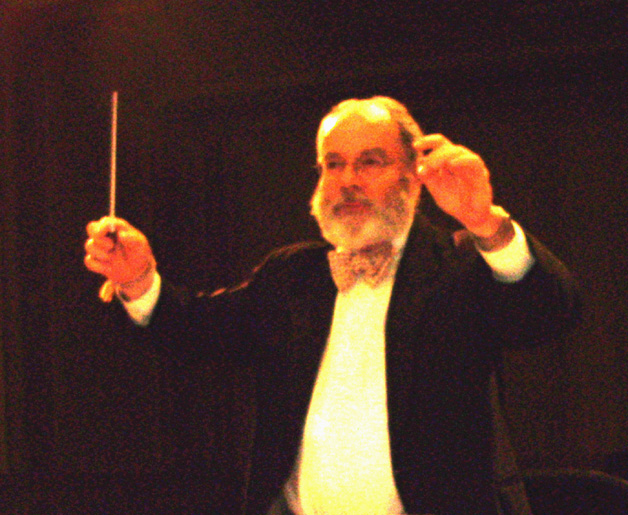 My Stroh W. Sands Hobgood conducting The Really Terrible Orchestra of the Triangle (RTOOT)